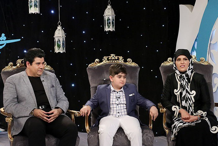 Salar Aghili and his family on IRIB 1.